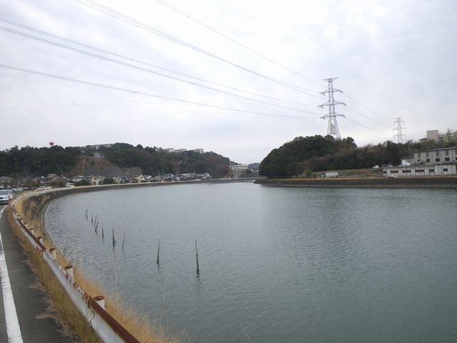 Higashiookawa,Tsumizumachi-Kaizumachi,Isahaya city,Nagasaki